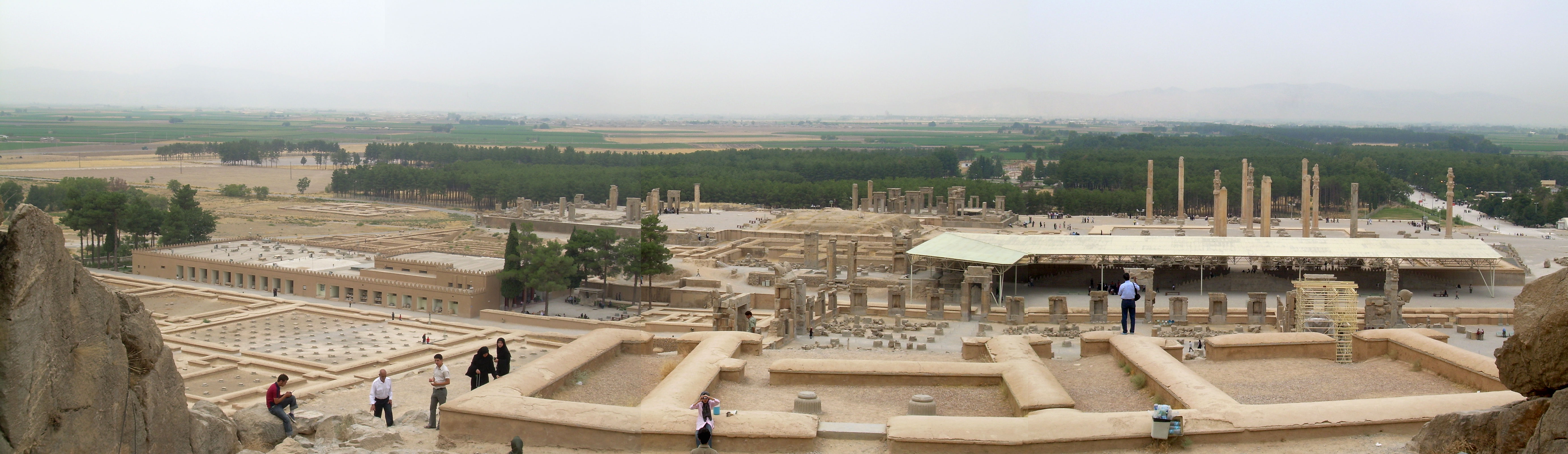 Panorama of Persepolis ruins taken by author, September 2007. Three photos stitched together in Photoshop.